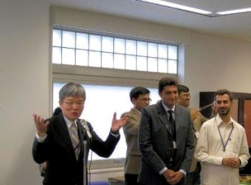 Seiji Ōsaka, Parliamentary Secretary for Internal Affairs and Communications, attended an exchange meeting at the United Nations Statistical Institute for Asia and the Pacific in Chiba City, Chiba Prefecture on August 22, 2011.